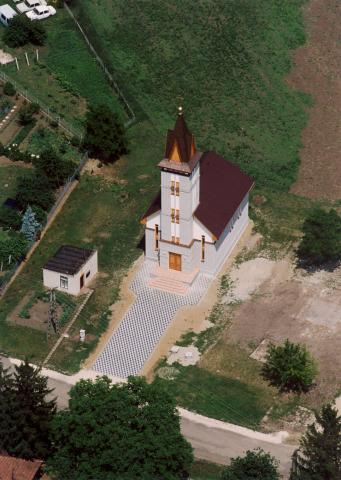 Csincse, Hungary, aerial photography, Roman Catholic Church